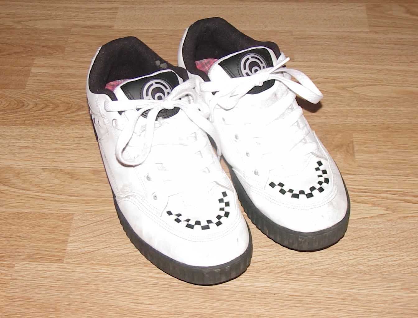 Ali Boulala Osiris Shoes brothel creepers trainers